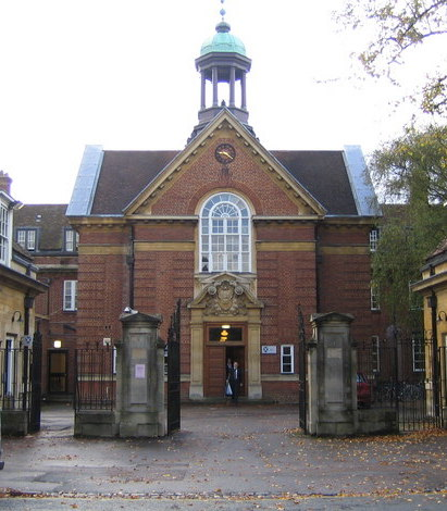 Oxford: St Hugh's College The College is in St Margaret's Road and its website is here